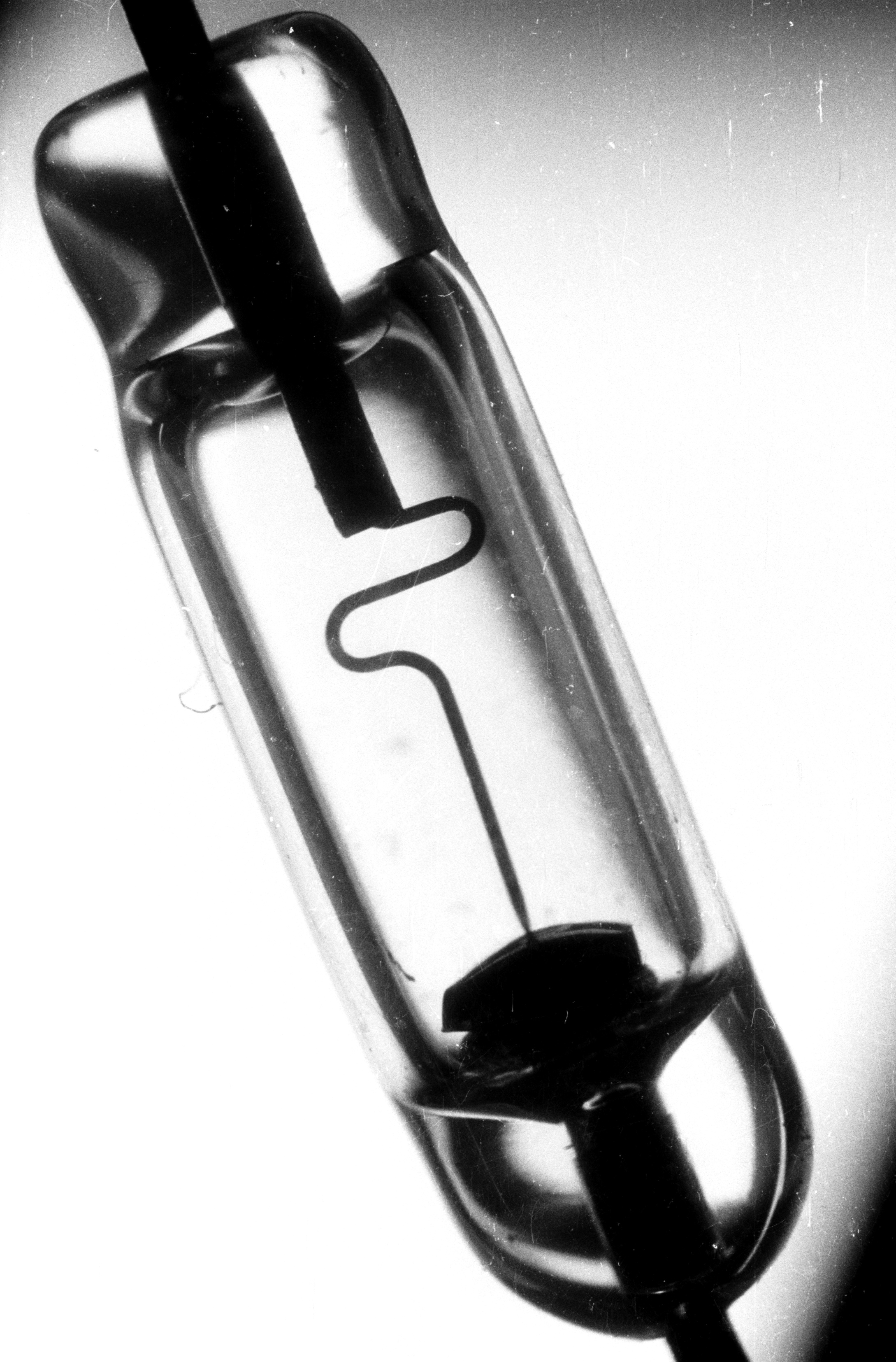 Chinese diode